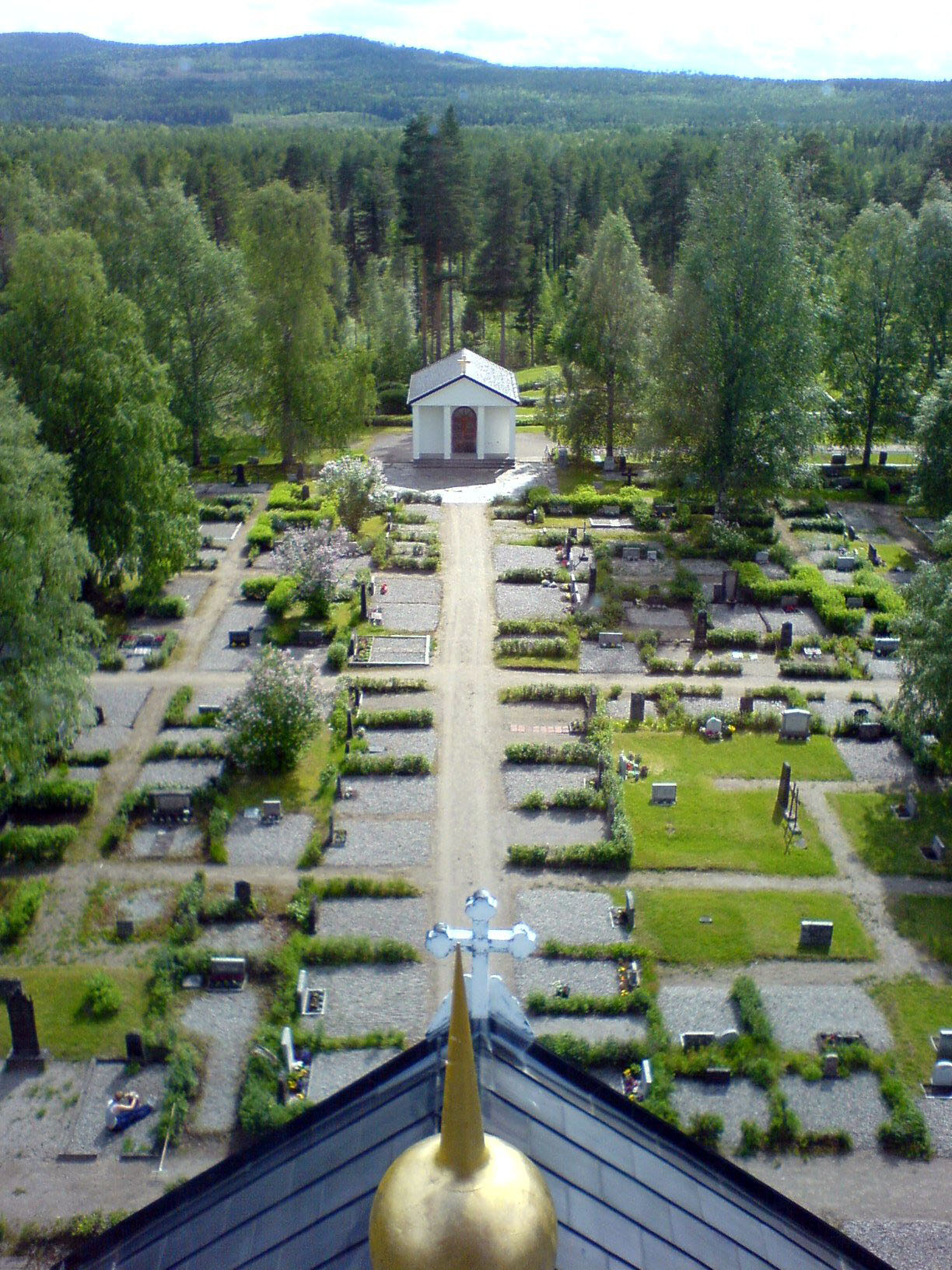 Bodums church and cementery in Rossön, Jämtlands County, Sweden